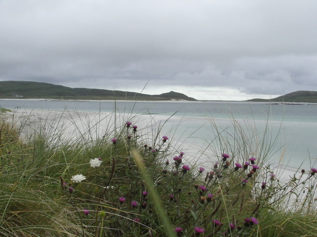 An Caolas Fuideach Fuday (or Fuideagh, pronounced "Fujay") lies off the Eoligarry peninsula at the northern end of Barra, Outer Hebrides. The mile wide sound separating Fuday from Eoligarry is shallow and dotted with reefs and skerries. Cattle used to be swum across the sound for summer grazing. Beyond the flowering machair lies the beach Traigh na Reill and across the sound the hills of Eoligarry. It is nearly low water and some of the skerries are visible.